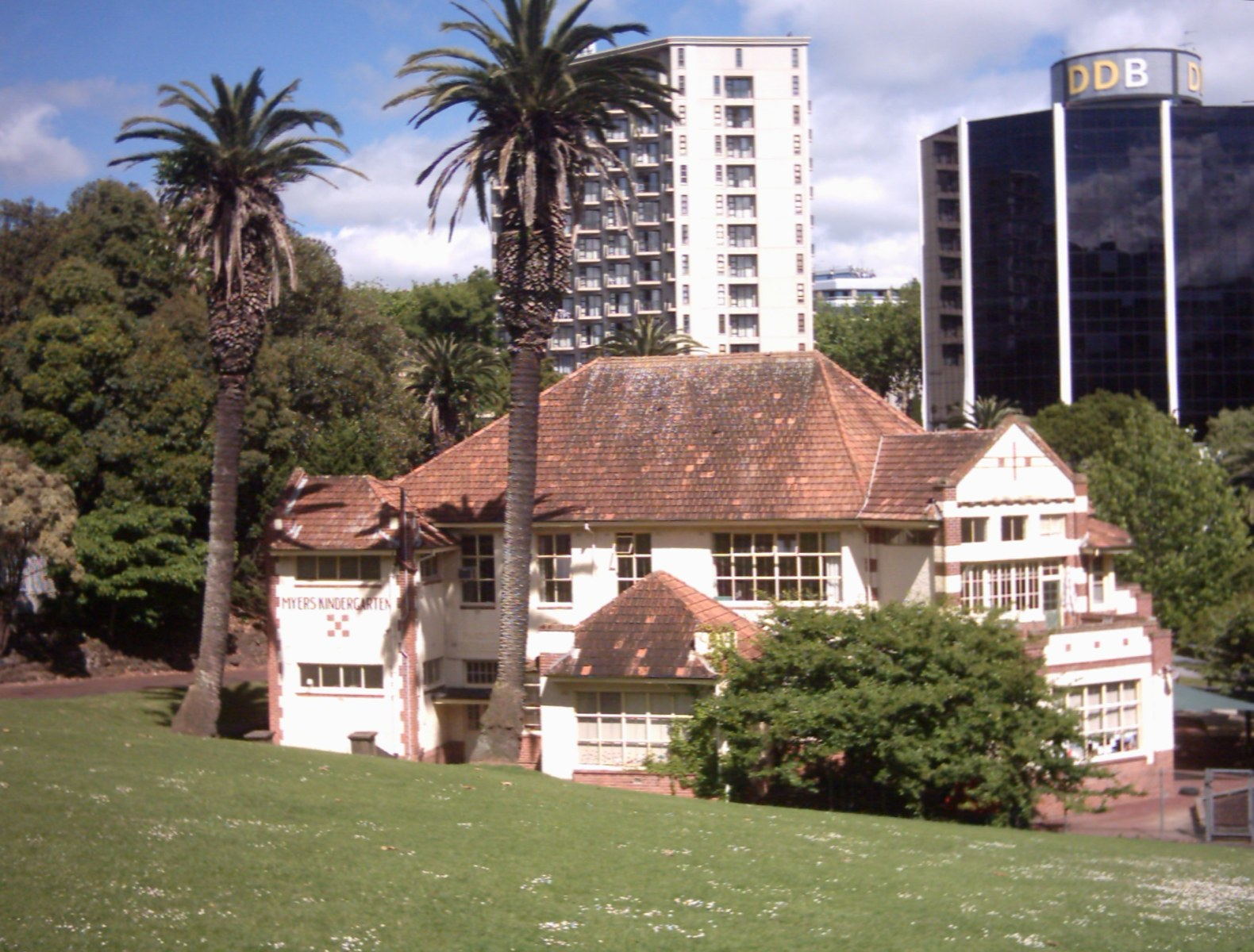 The Myers Free Kindergarten (as of 2006, the 'KiNZ Myers Park' kindergarten) in Myers Park, Auckland City, New Zealand, photographed from Queen Street. The large palms (Phoenix canariensis) are representative of the impressive specimens in the park. The building is in NZHPT Category II; register number 619.